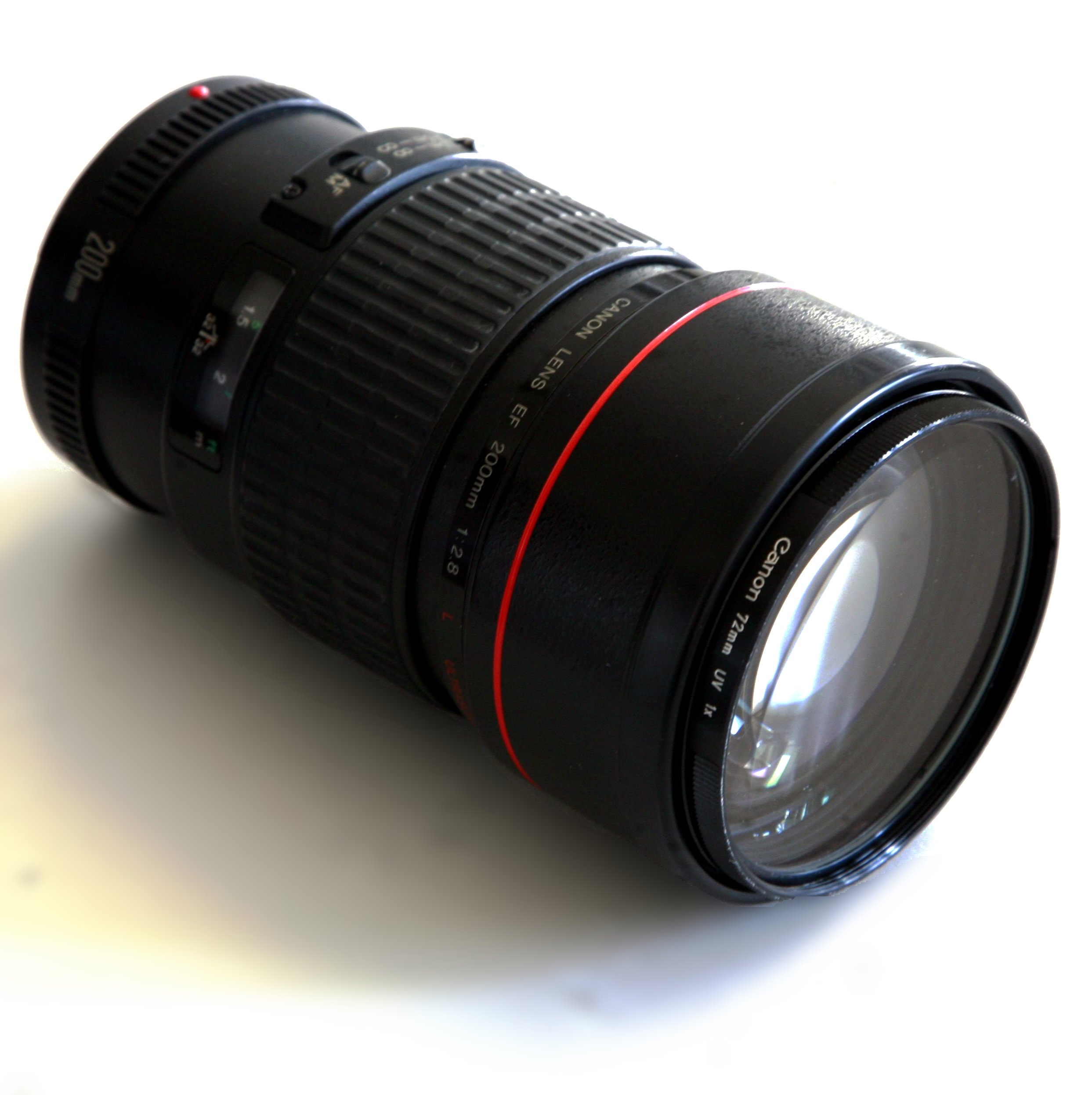 Canon EF 200mm F2.8L USM